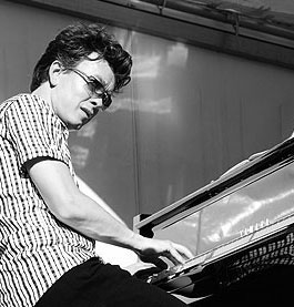 Peter Rosendal